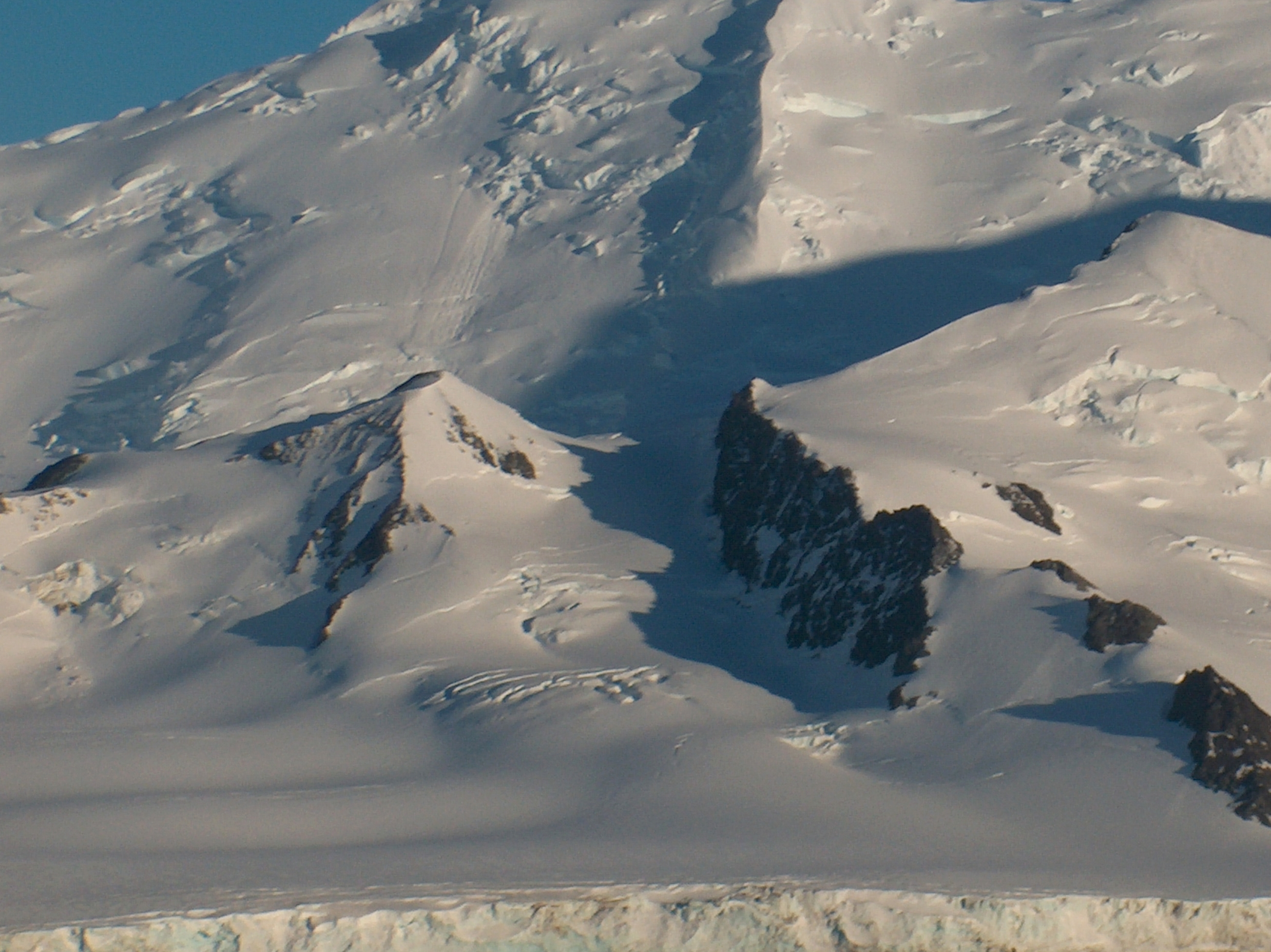 Starosel Gate on Livingston Island, Antarctica seen from the Bransfield Strait